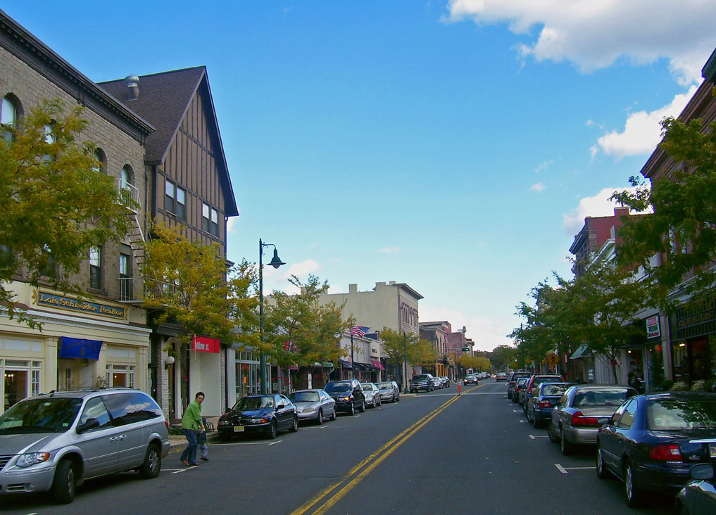 Photographed by Daniel Case 2006-10-29, looking along Springfield Avenue near the Woodland Avenue intersection.